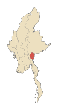 Kayah state in Myanmar